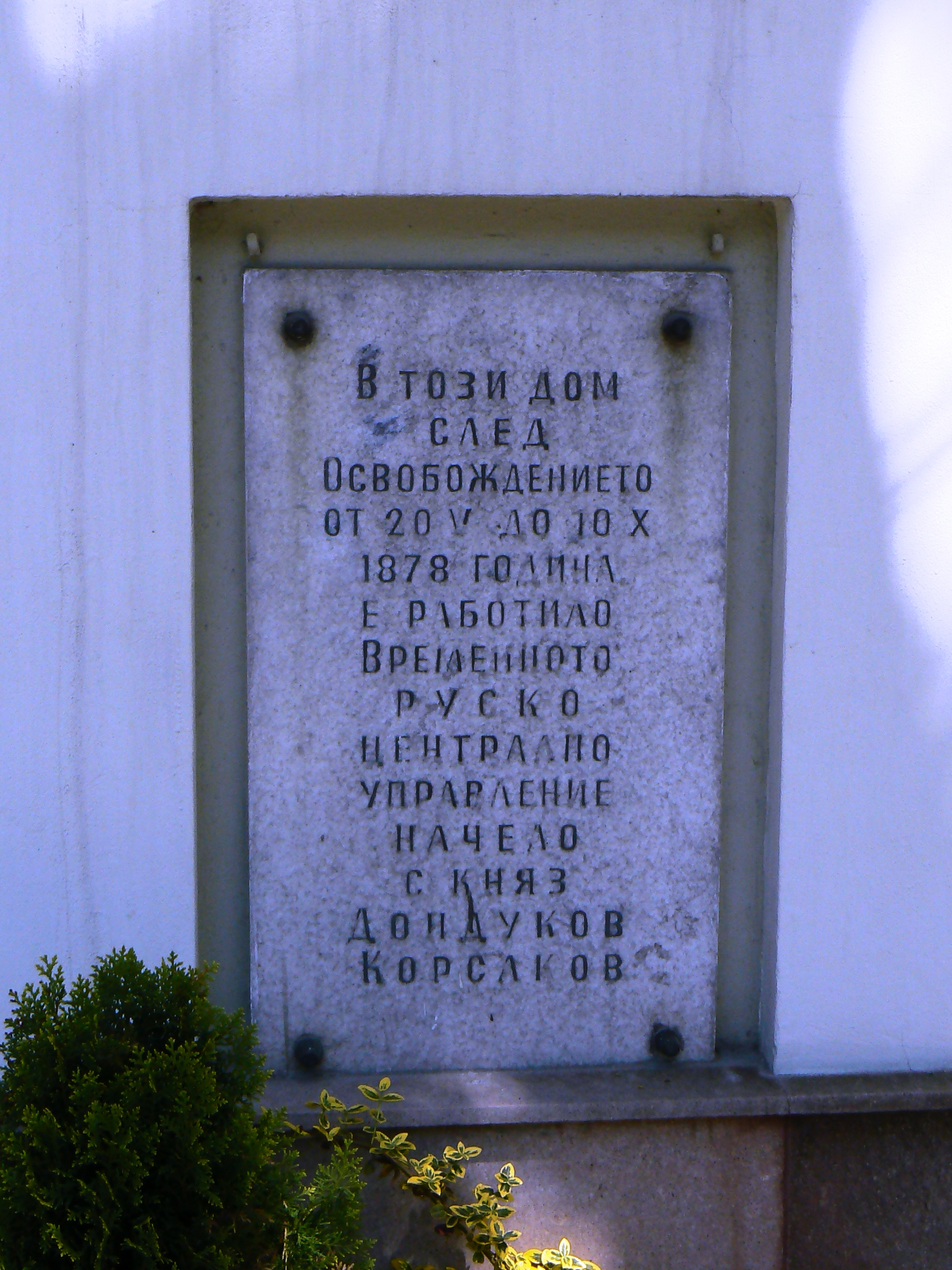 The memorial plaque on the wall of the headquarters of the Interim Russian Government of Bulgaria in 1878, Plovdiv, Bulgaria